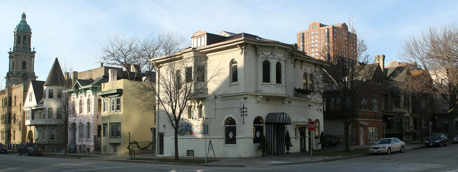 Cass-Wells Street Historic District, Milwaukee, Wisconsin, National Register of Historic Places. 712, 718, and 724 E. Wells Street (on the left) and 801, 809, 815, 819, and 823 N. Cass Street (center and right).